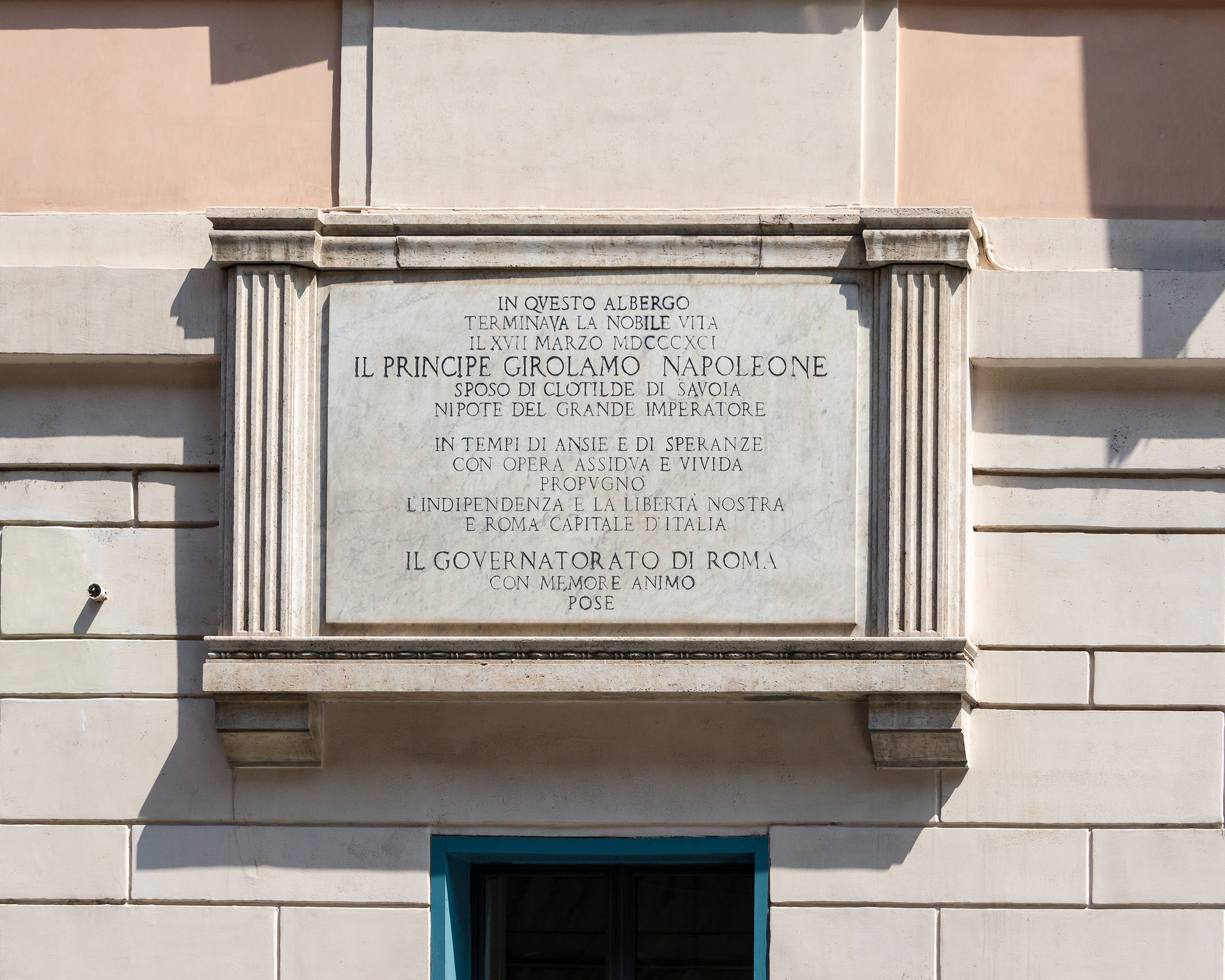 Here-died plaque to Prince Jerôme-Napoleon, who died in the "Hôtel de Russie" on march 18, 1891. Via del Babbuino, Rome, Italy.